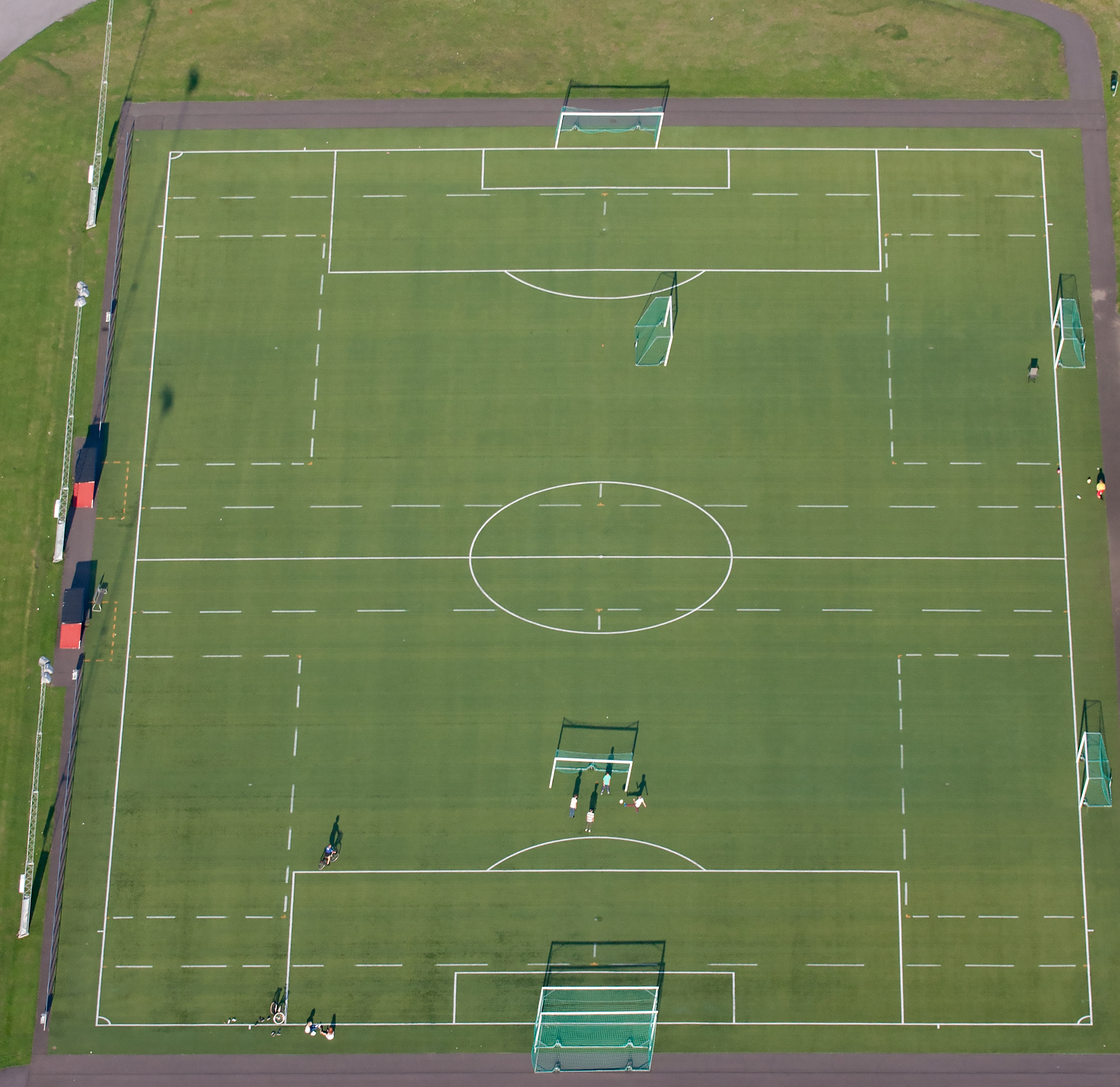 Association football field with additional lines for seven-a-side games.